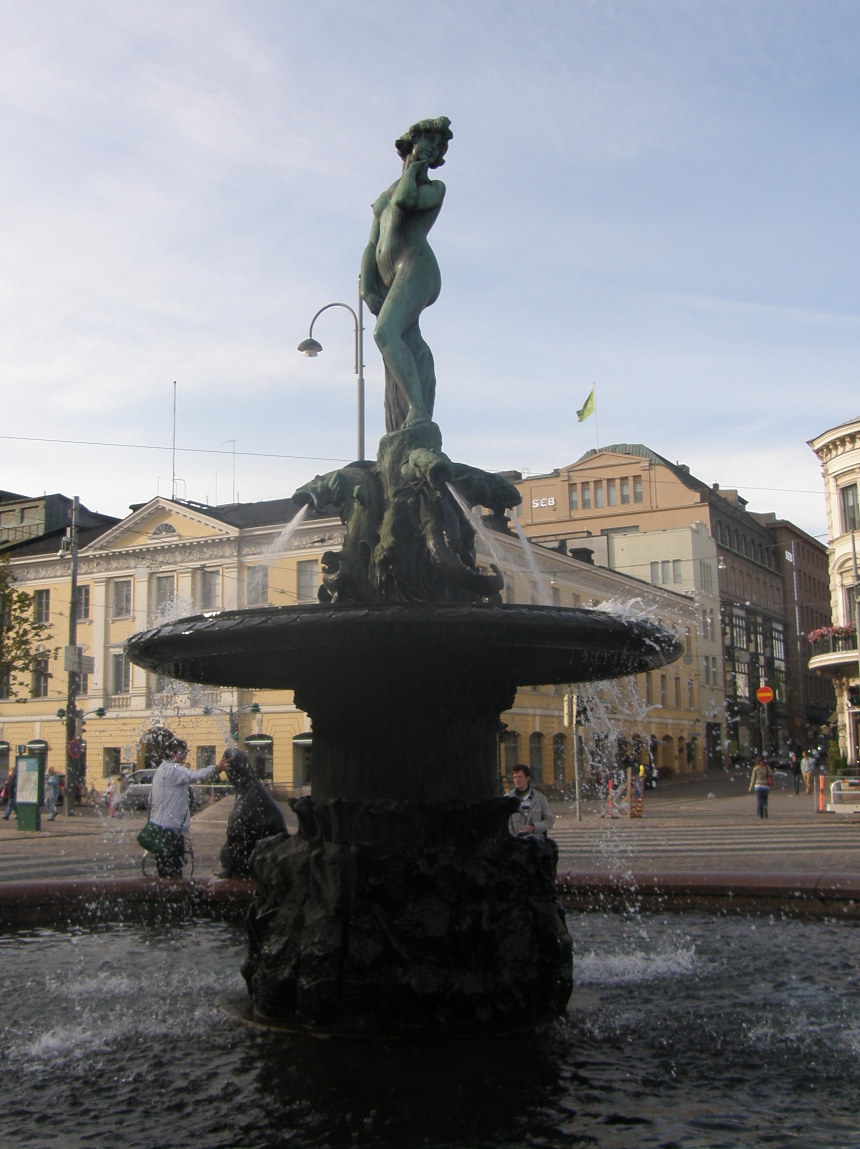 Havis Amanda in Helsinki